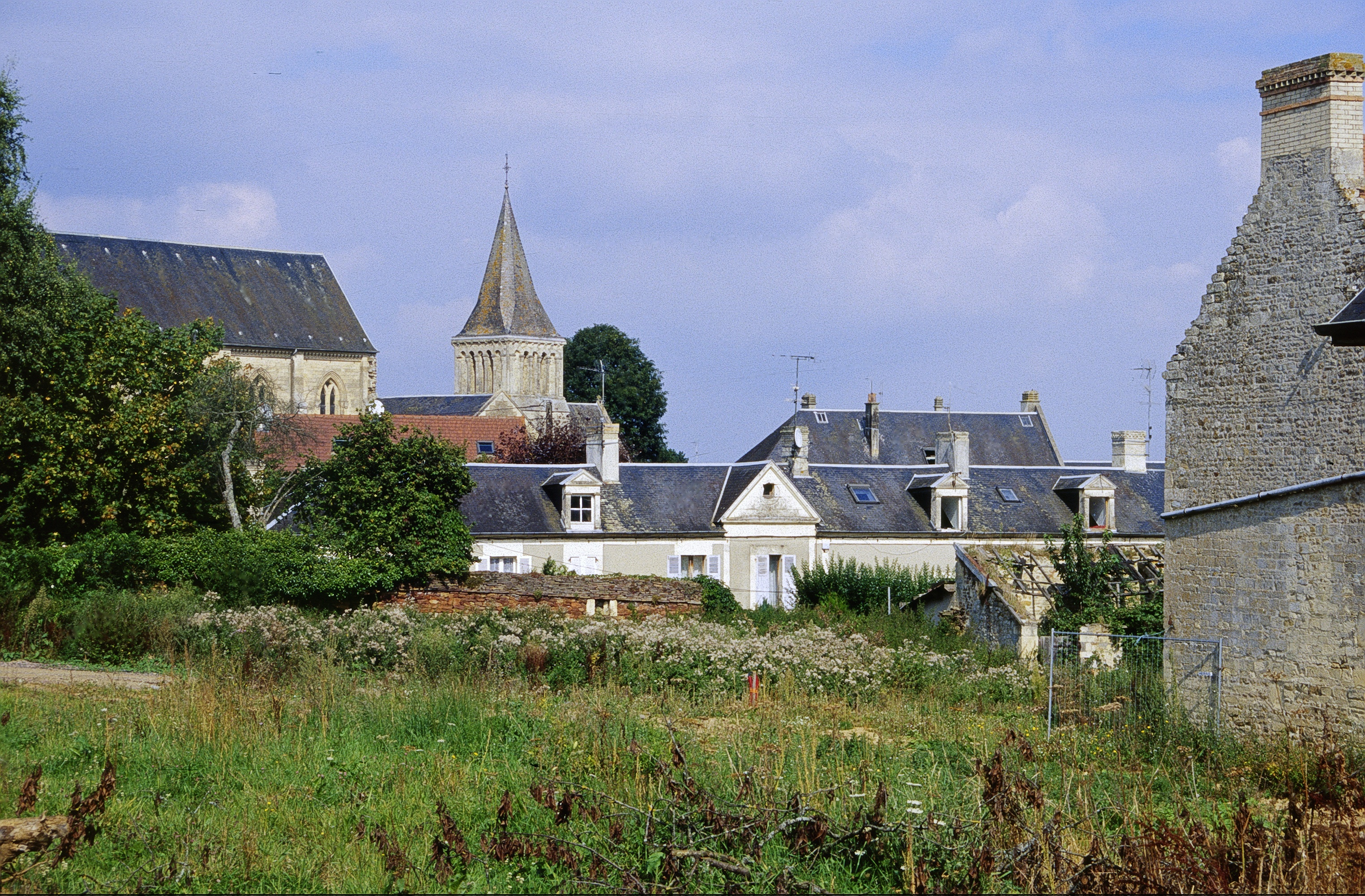 Town and church of Clinchamps sur Orne